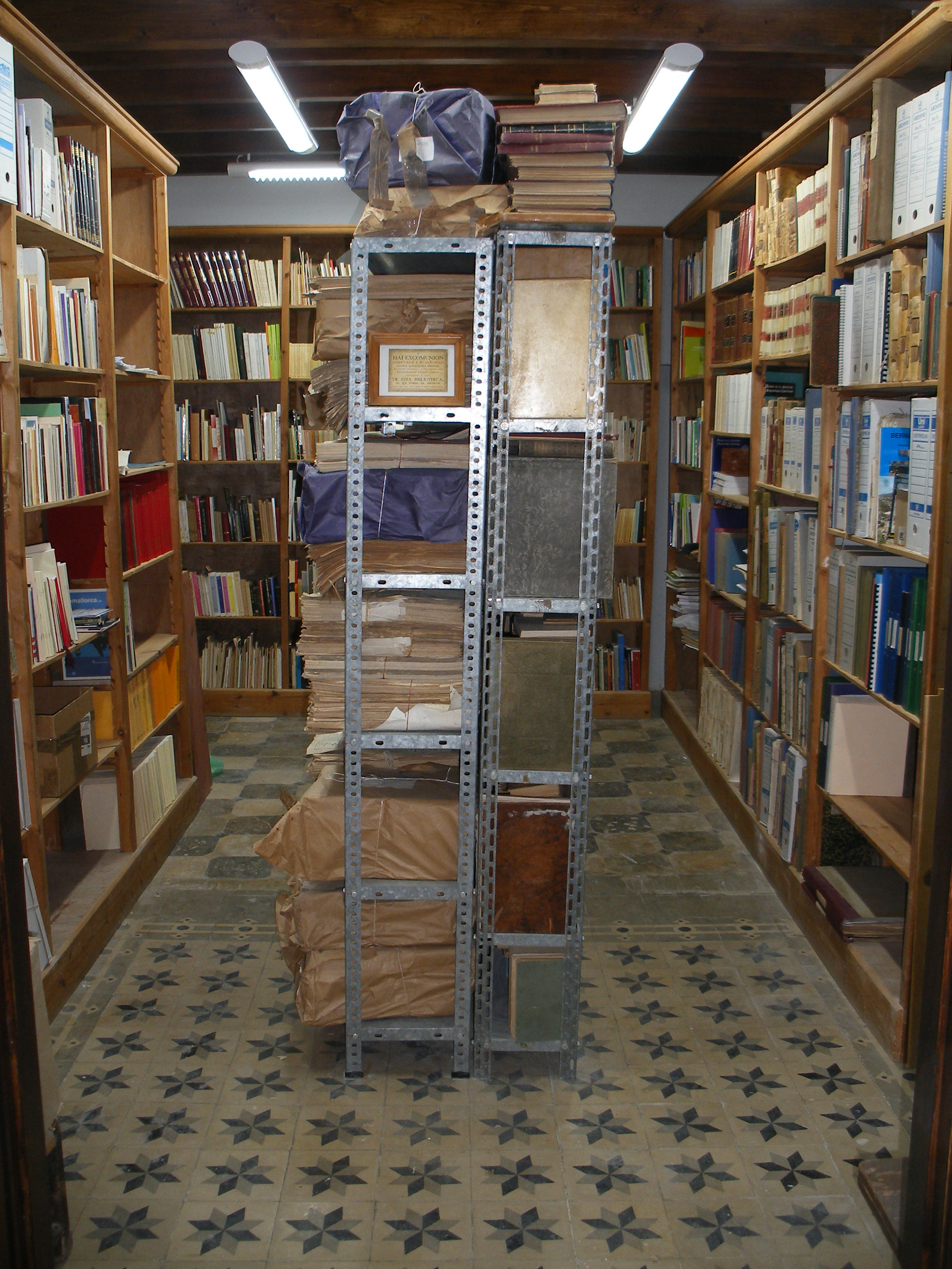 Fundació Museu Cosme Bauçà